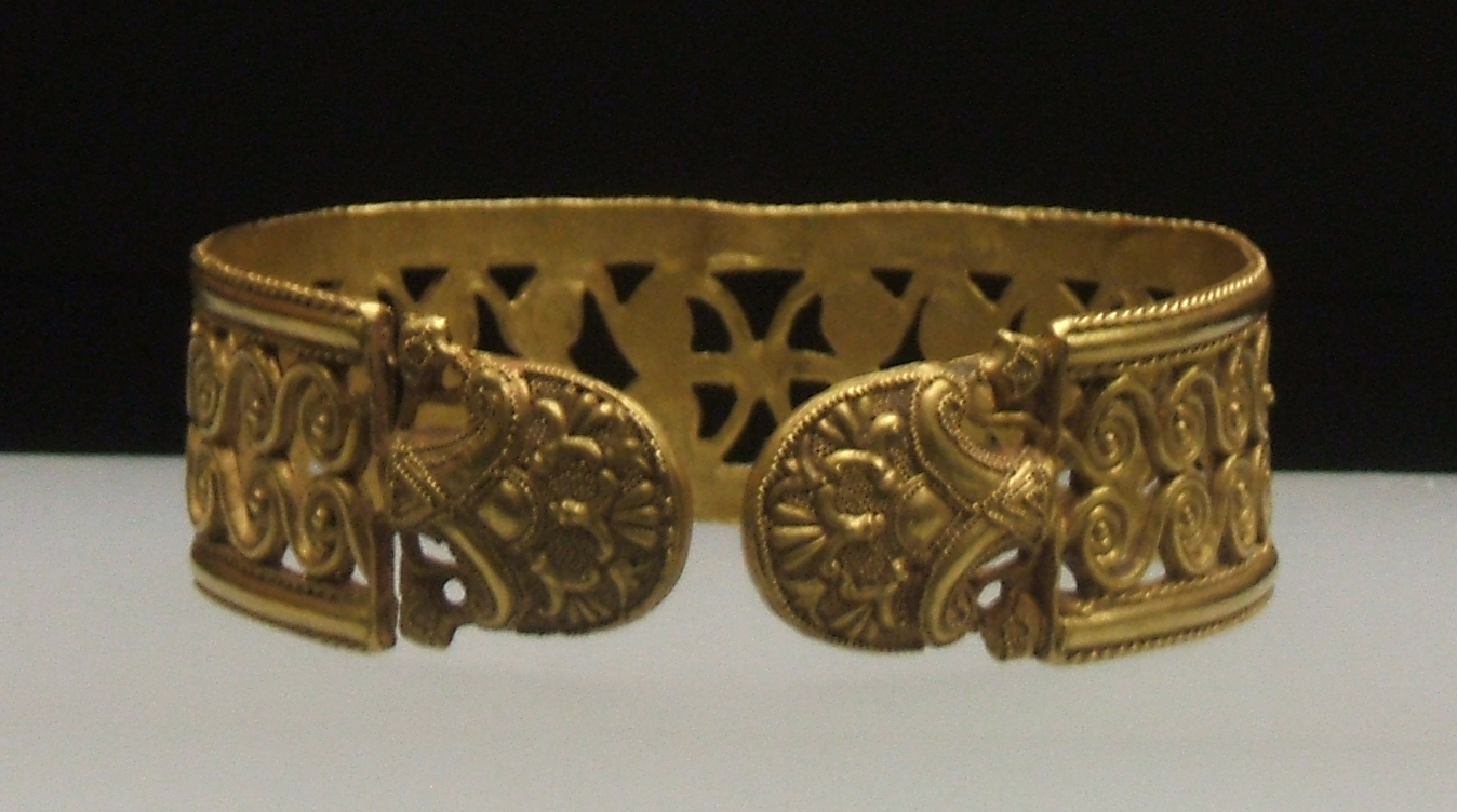 Gold bracelet from the Iron Age. Part of the so-called Trasure of Aliseda. From Aliseda (Cáceres, Extremadura, Spain).